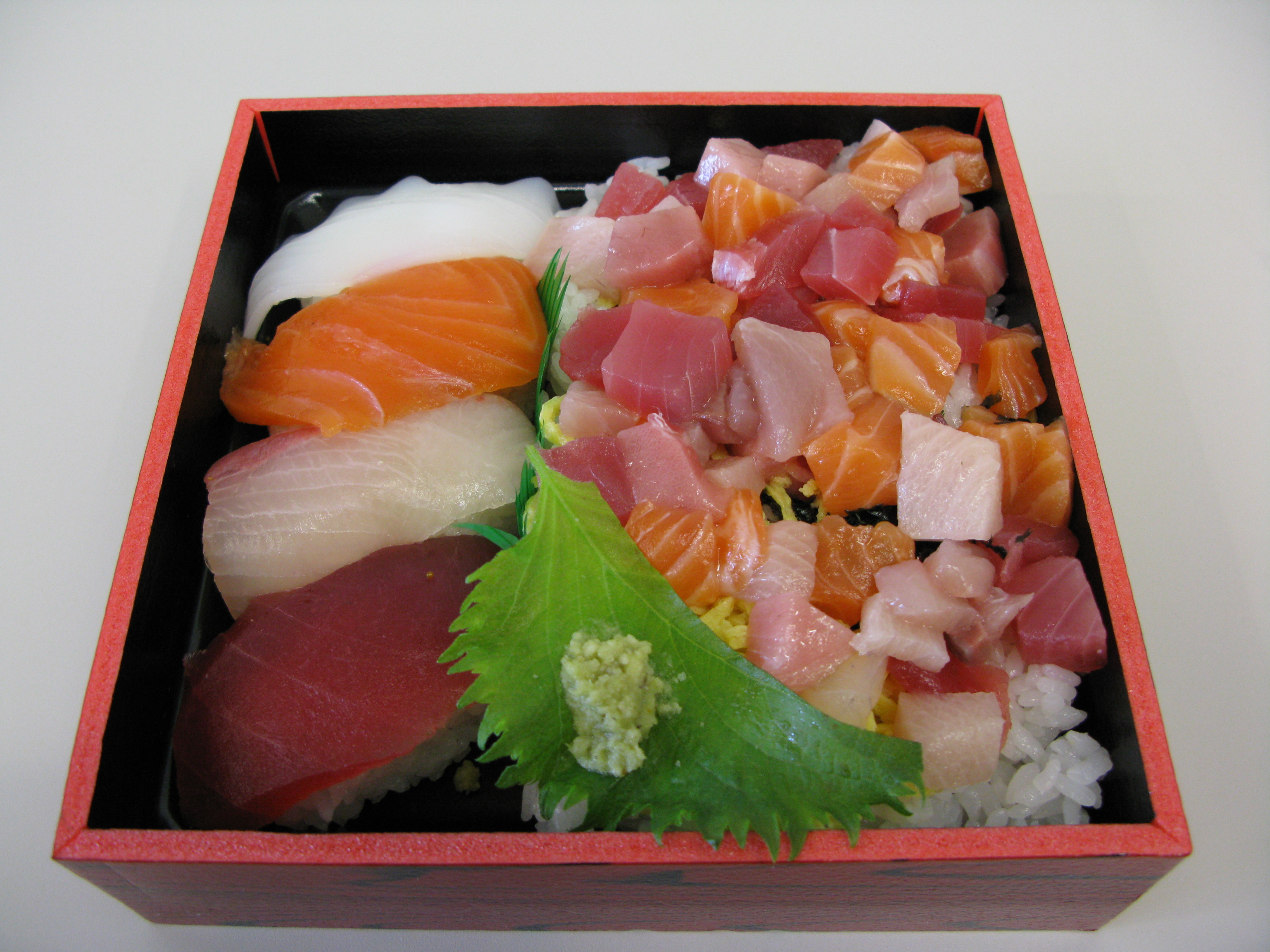 A sushi bento.